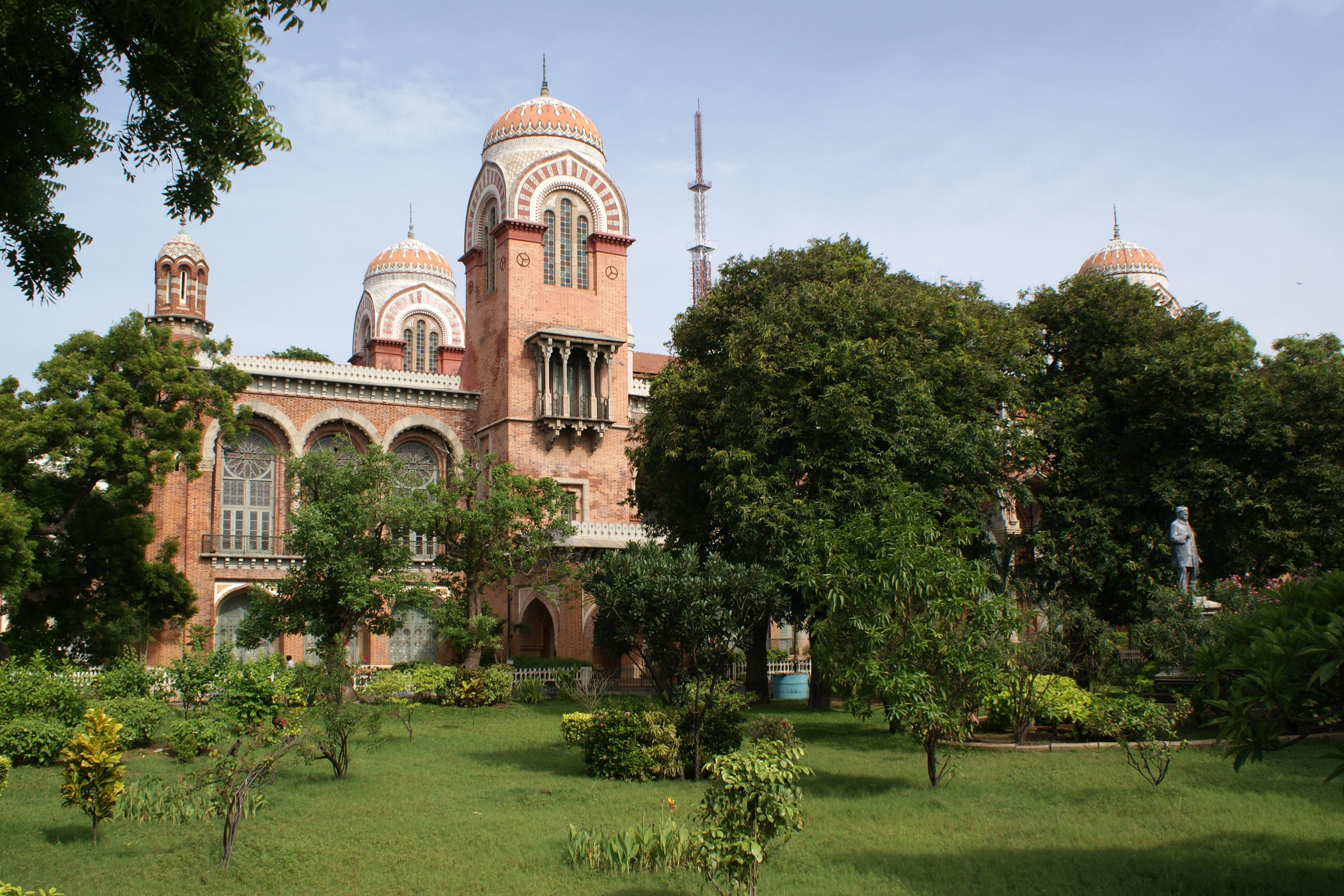 Senate House (Robert Chisholm, 1874-1879) of the University of Madras, Chennai, Tamil Nadu, India